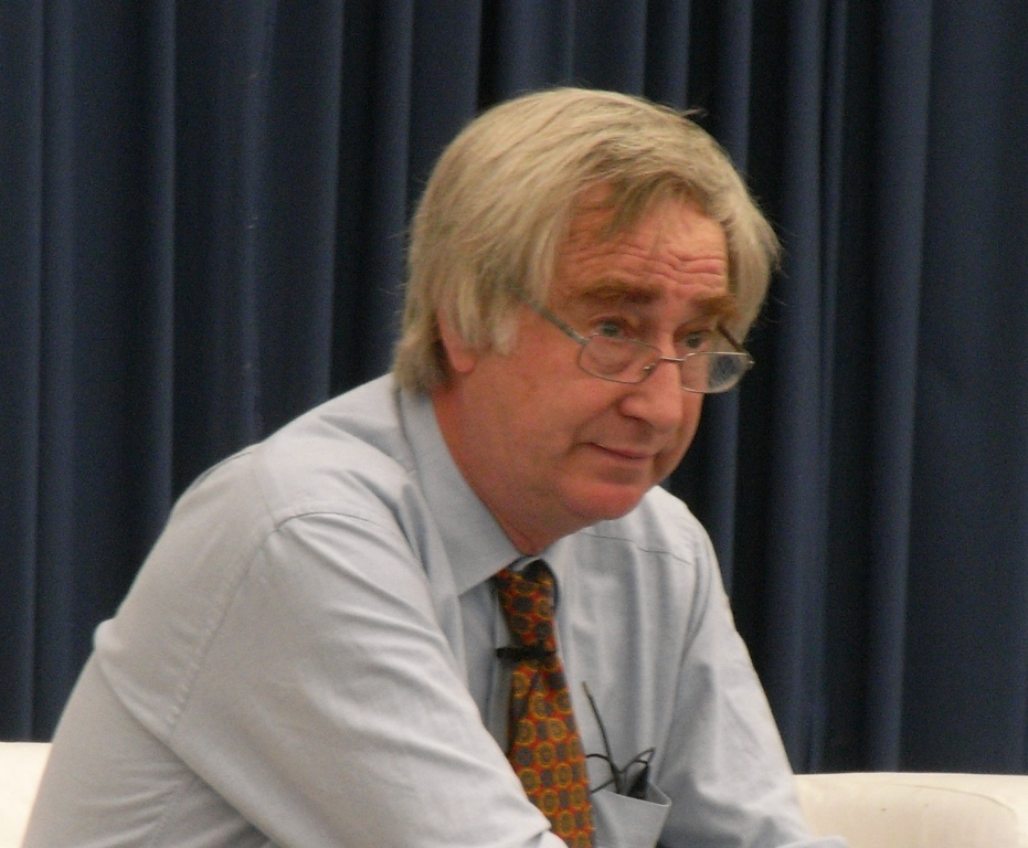 British broadcaster Peter Day at BBC Media Futures Conference 2008 held at Alexandra Palace, London.